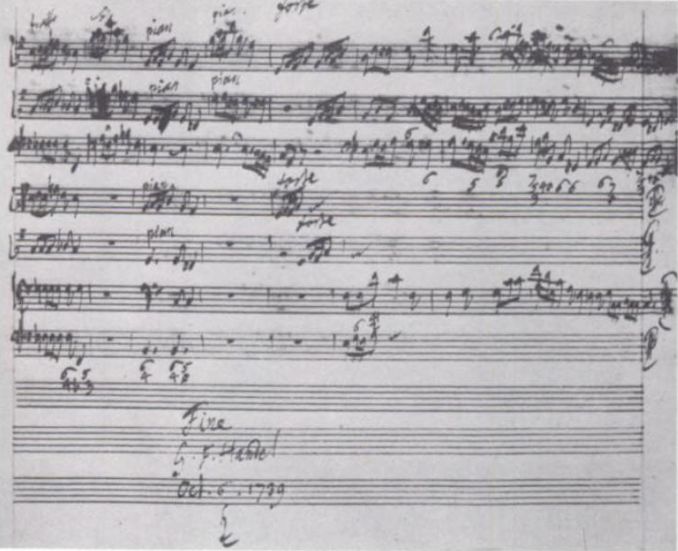 Photograph of the original manuscript of Handel's concerto grosso Op.6 No.4 from Page 345 of P.H.Lang's Handel